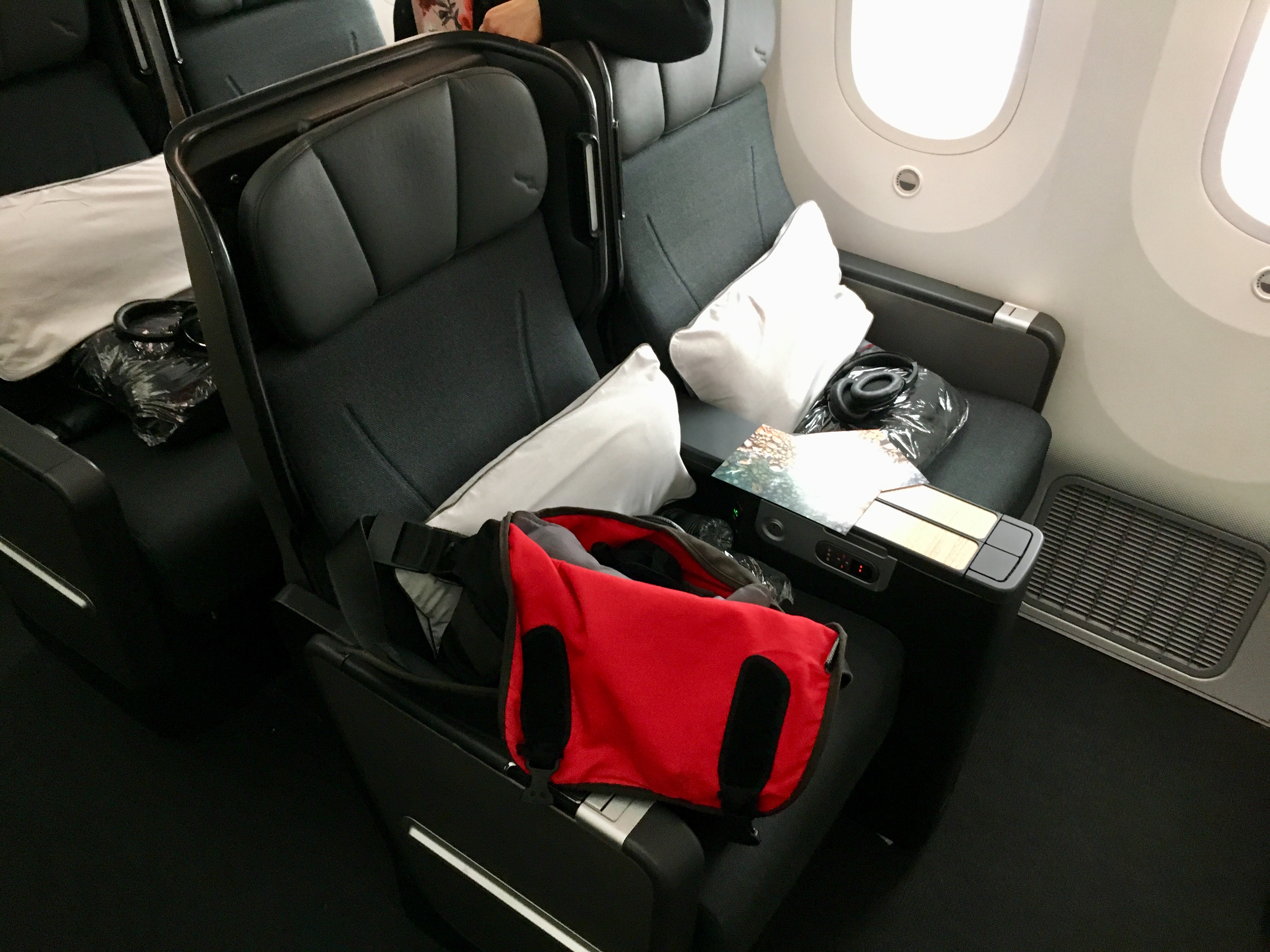 A photo of a Boeing 787-9 Qantas Premium Economy seat (aisle seat is the primary focus, with other Premium Economy seats also shown in the background). Photo was taken on Qantas flight QF11 from Los Angeles to New York on Friday, 28th June 2019.